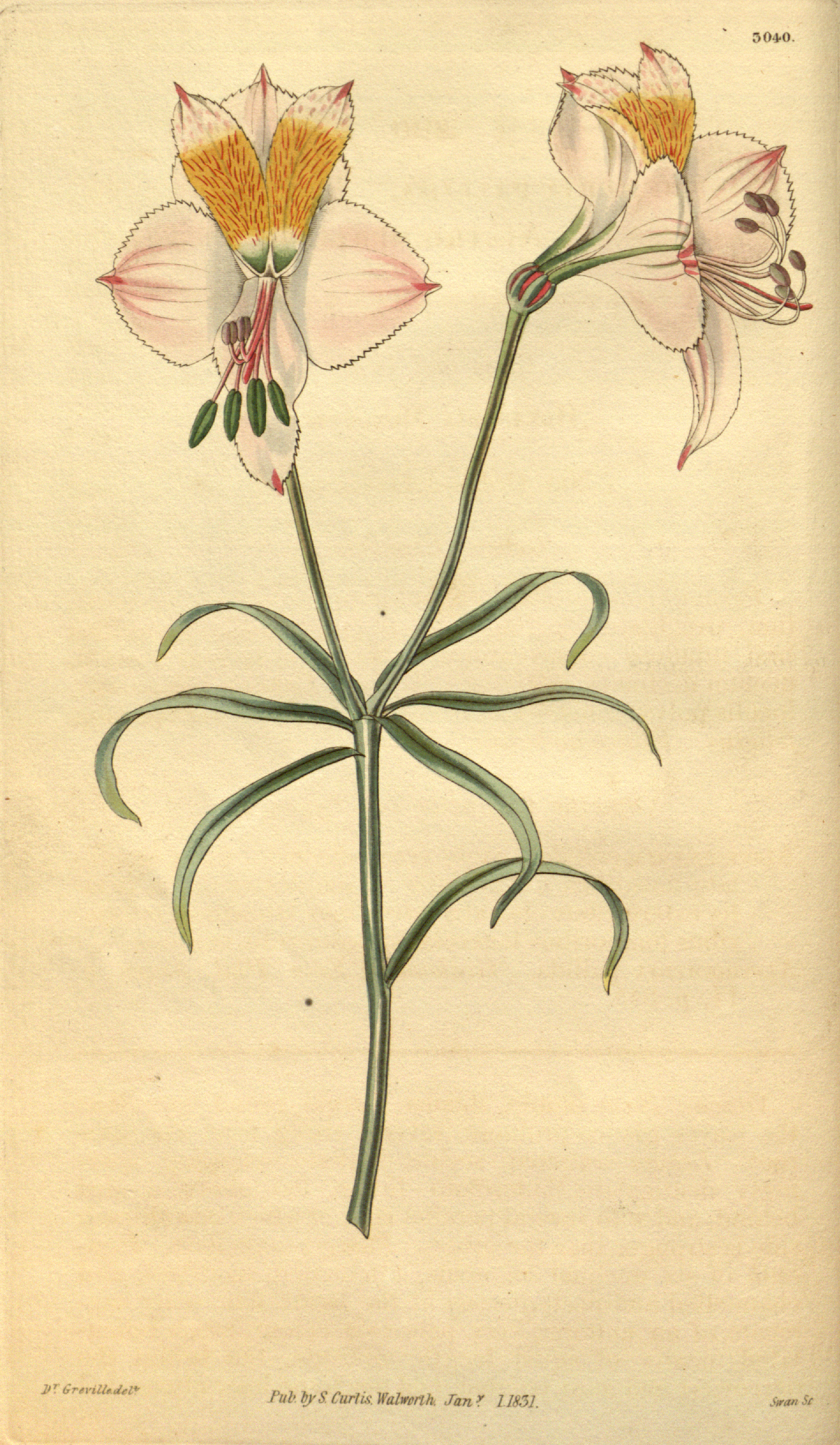 Alstroemeria pallida Graham. This is a plate from Curtis's Botanical Magazine, Volume 58.